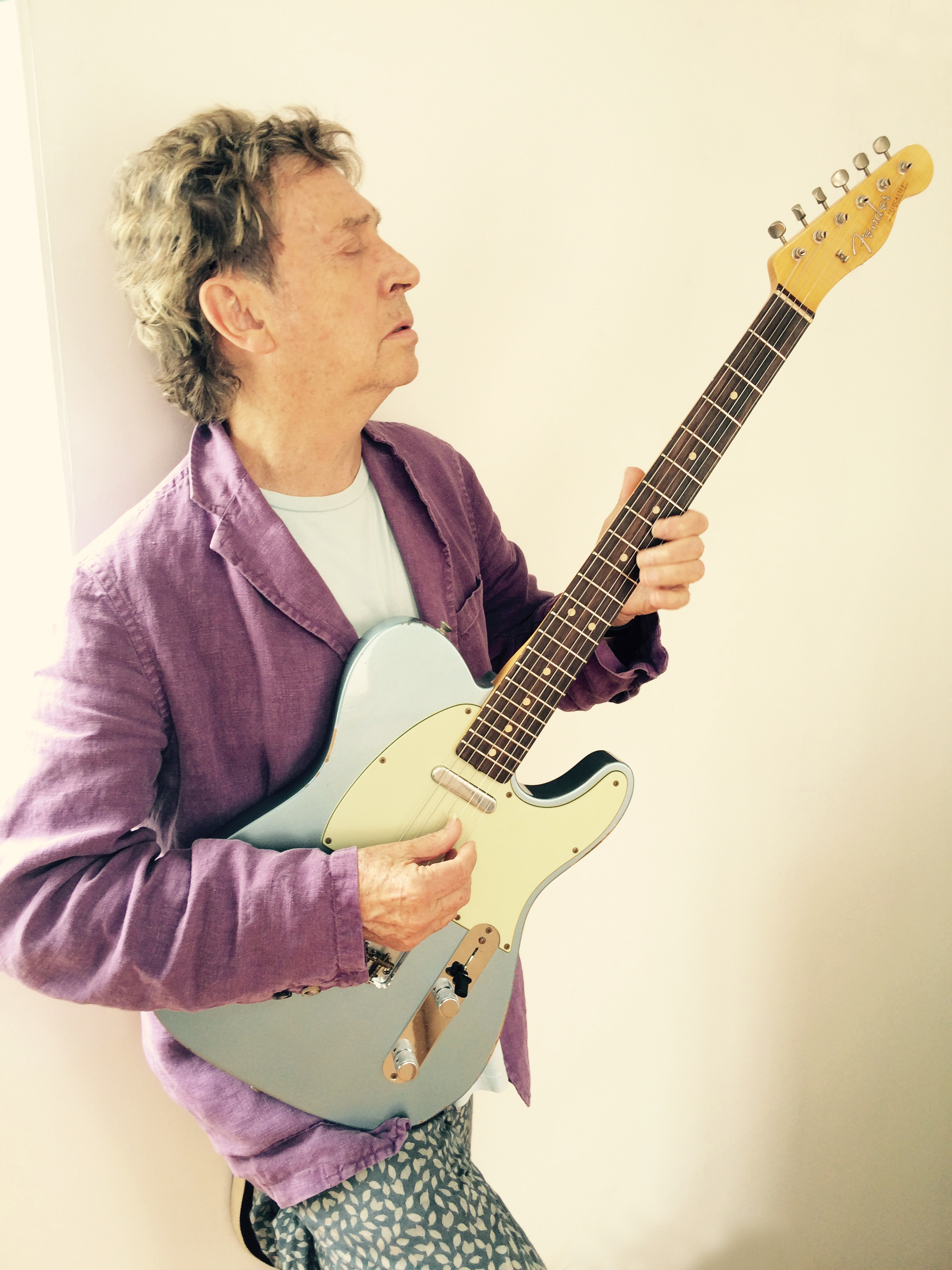 A portrait of Andy Summers with a guitar in 2015. Other information Cropped from the original image.